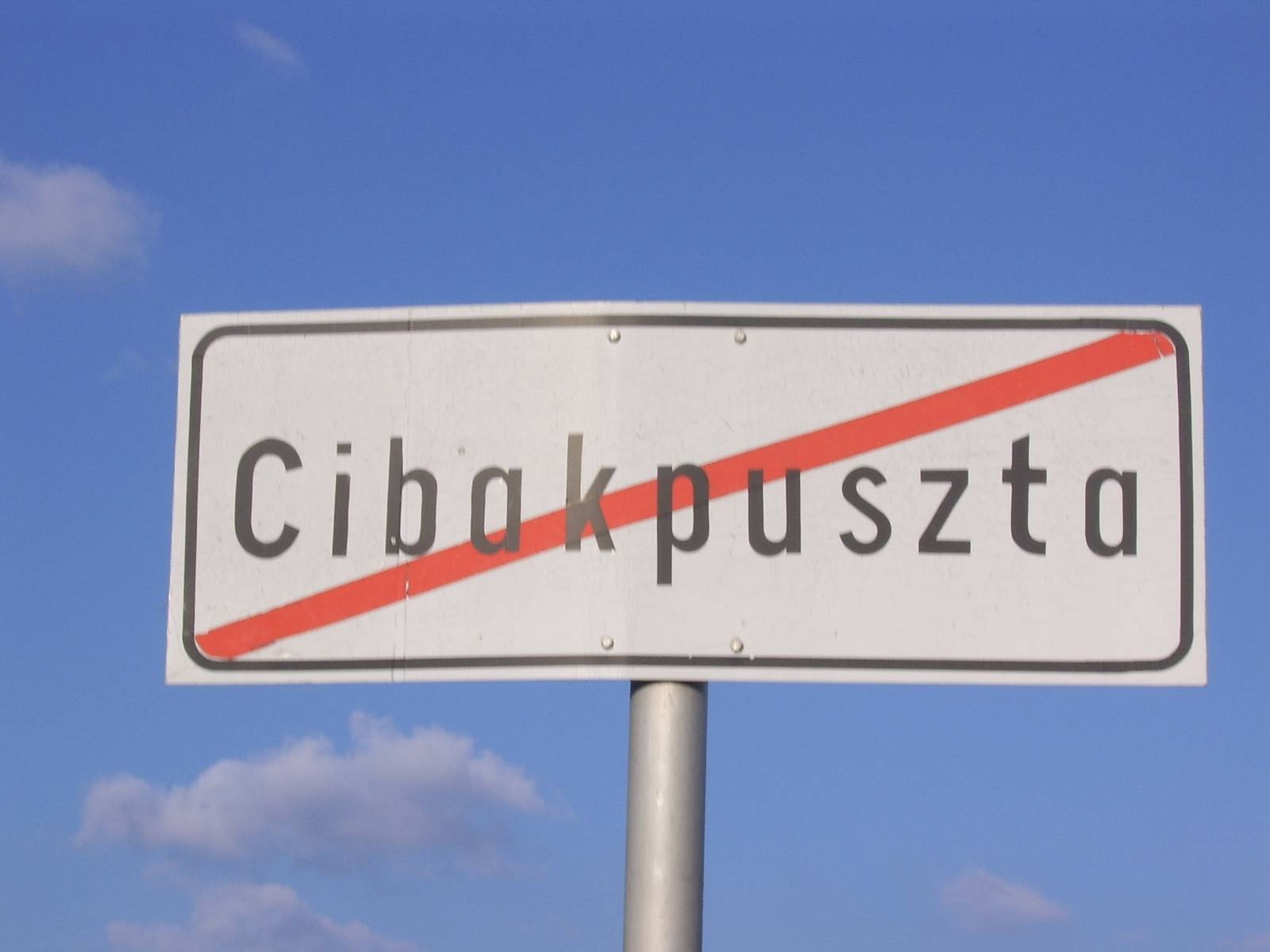 Cibakpuszta vége tábla